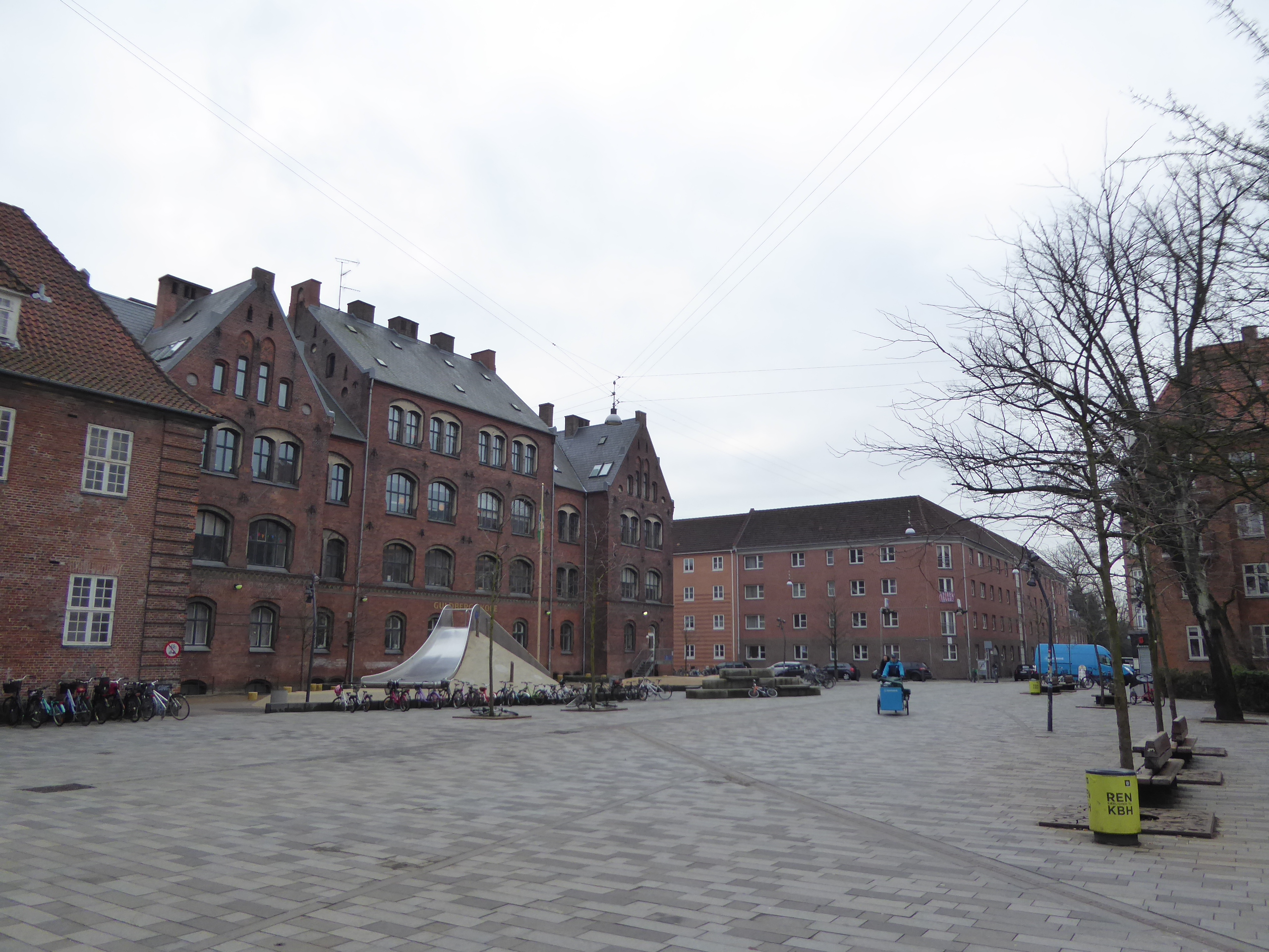 Square unofficial known as Guldberg Byplads in Nørrebro in Copenhagen. Official it is a part of the street Sjællandsgade. At the left Guldberg Skole.